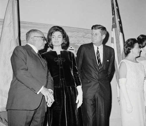 Rómulo Betancourt, Jacqueline Kennedy and JFK.